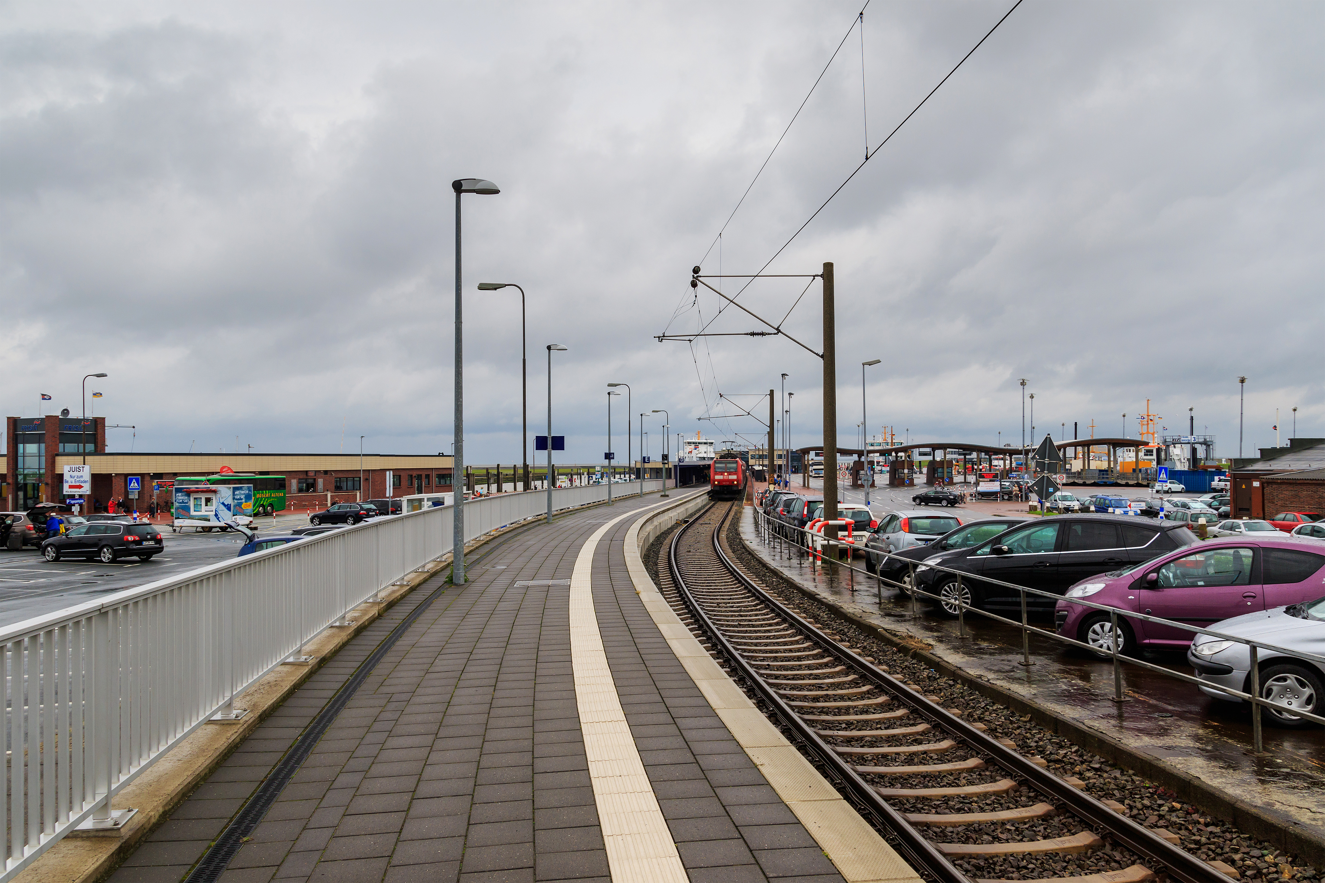 Norddeich Mole railway terminus at the North Sea, Lower Saxony, Germany